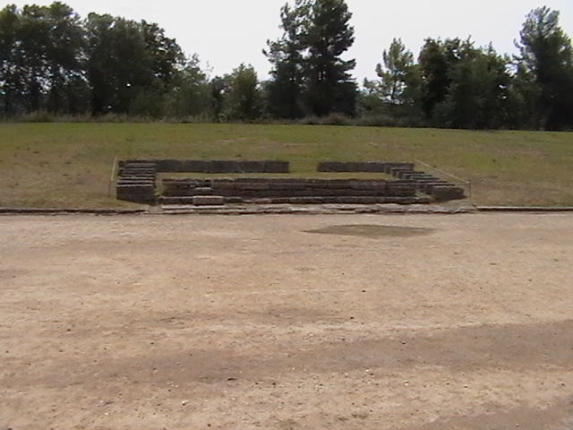 The "Exedra", stone seats reserved for the judges at Olympia, Greece. The Exedra is situated on the south embankment of the stadium.